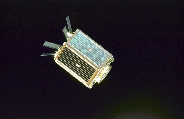 Photograph of MightSat-1 after deployment